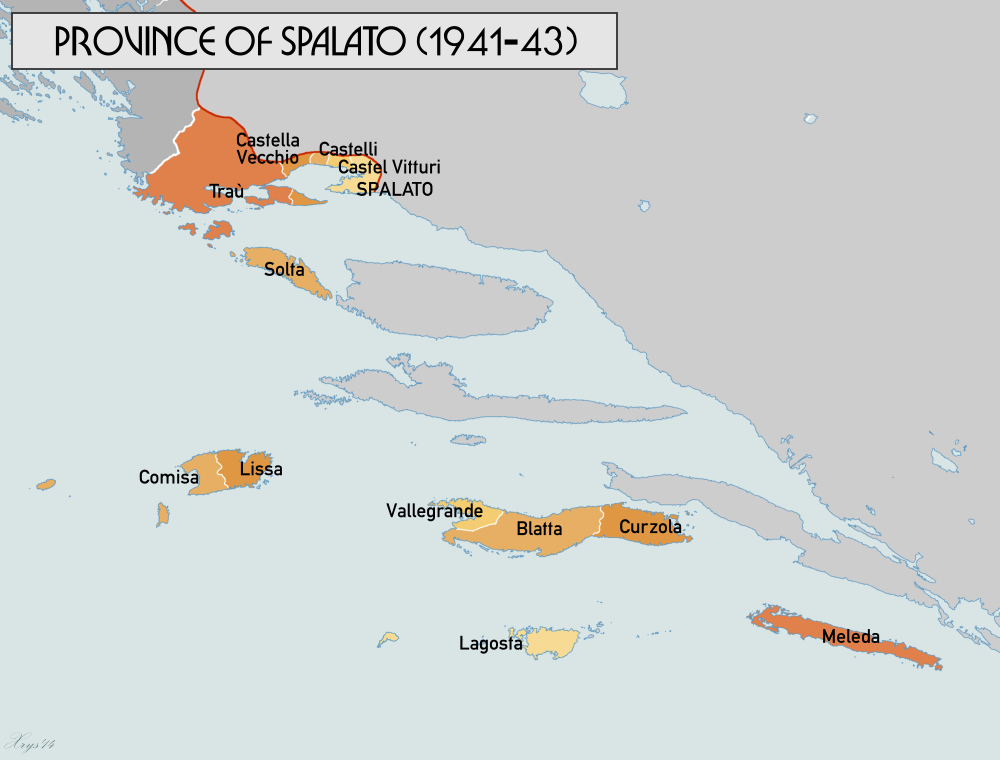 Map of the Italian Province of Spalato (1941-43). Source data: Volkstumskarte von Jugoslawien, Wilfried Krallert (1941)